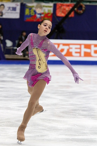 Adelina Sotniкova at the Junior Grand Prix Final 2010